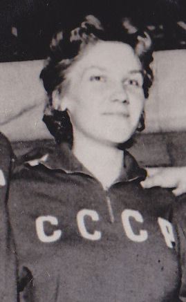 Soviet women's foil team at the 1960 Olympics. Left-right: Rastvorova, Gorohova, Petrenko-Samusenko, Zabelina/Shishova, Prudskova